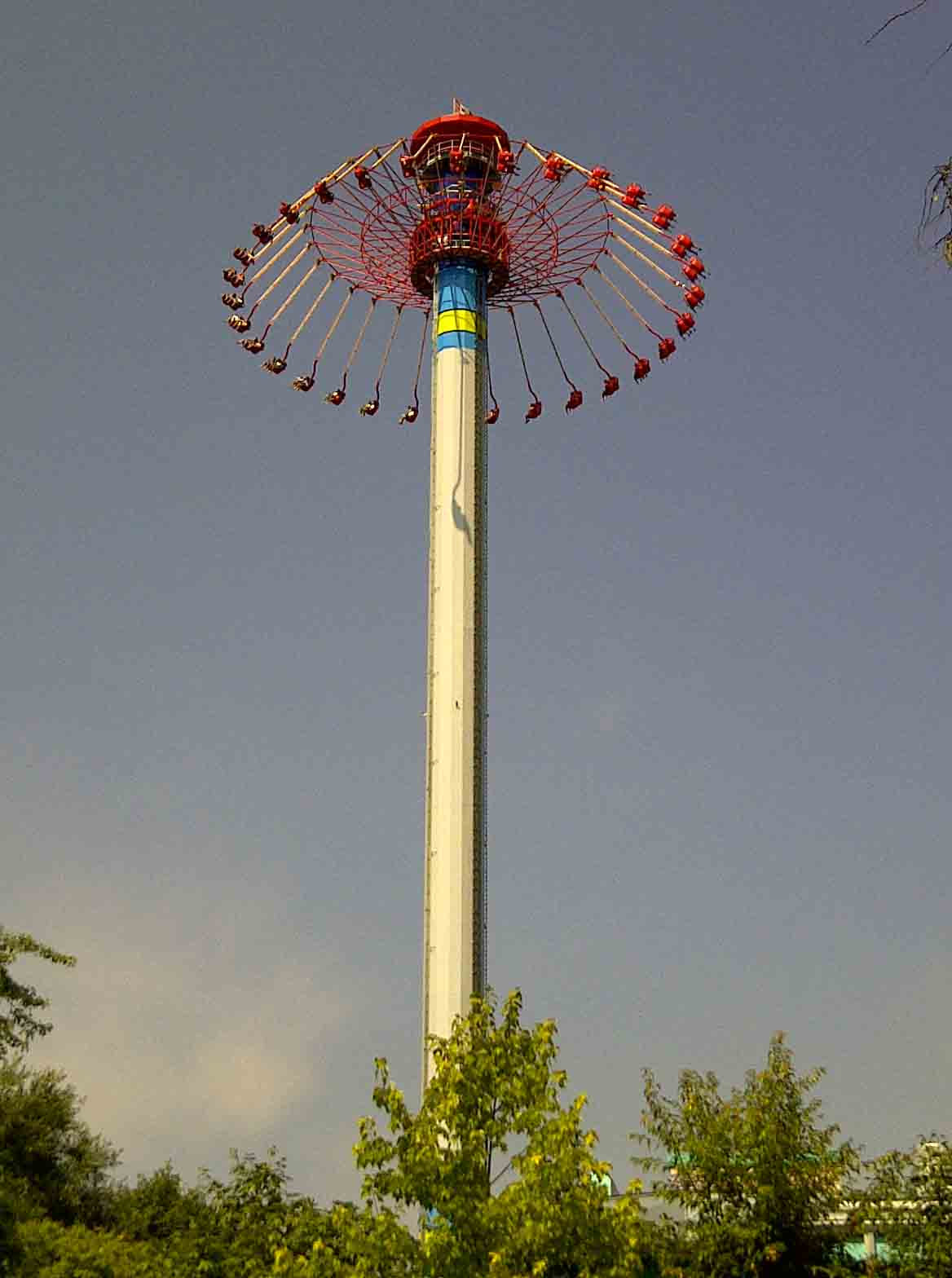 This is a photo of the WindSeeker at Canada's Wonderland.